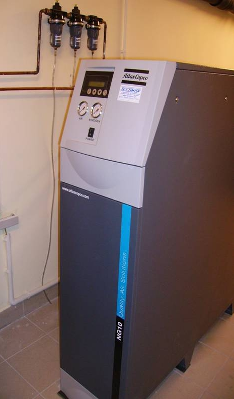 Nitrogen generator